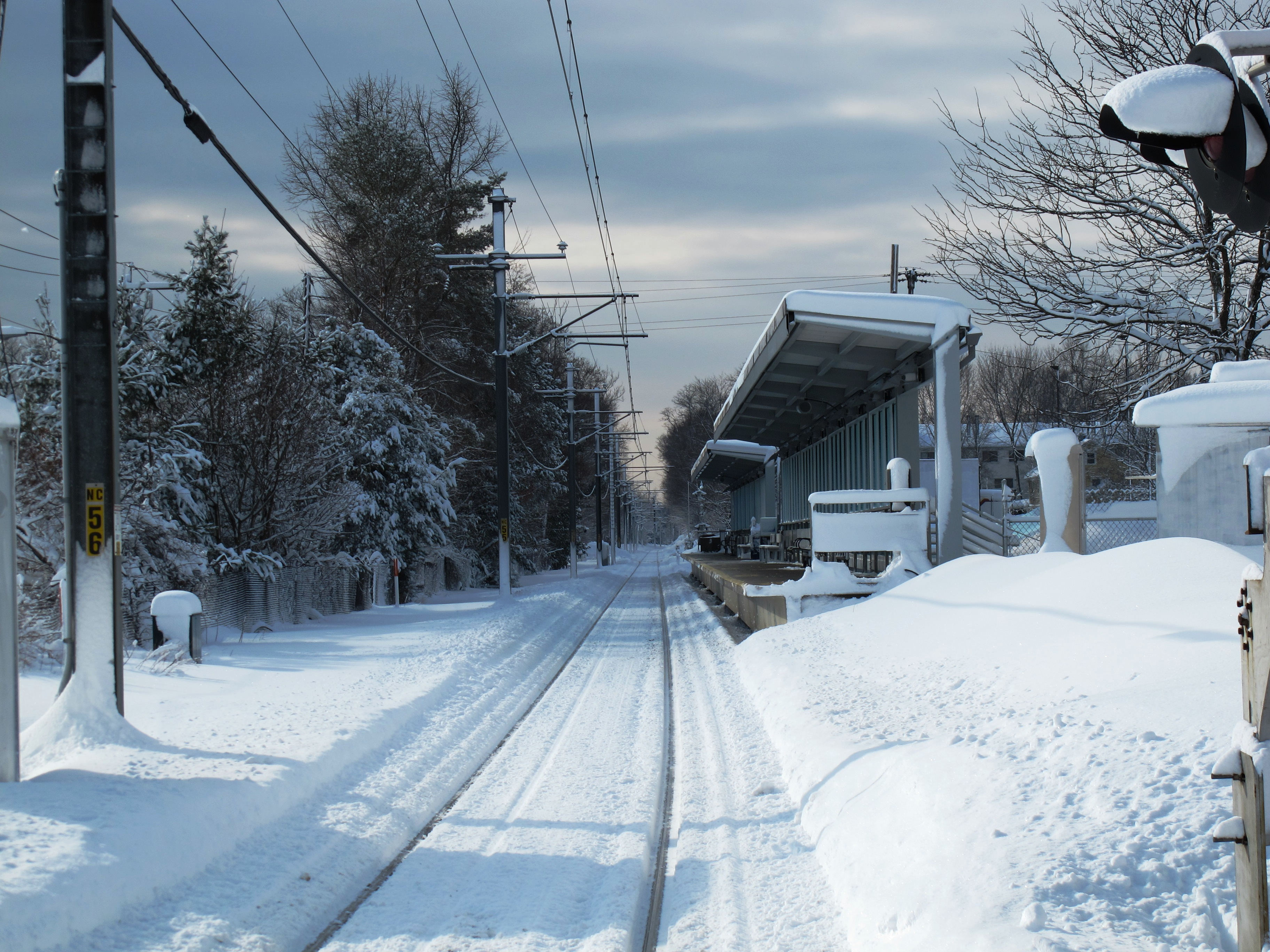 Springdale station after a snowstorm in January 2011